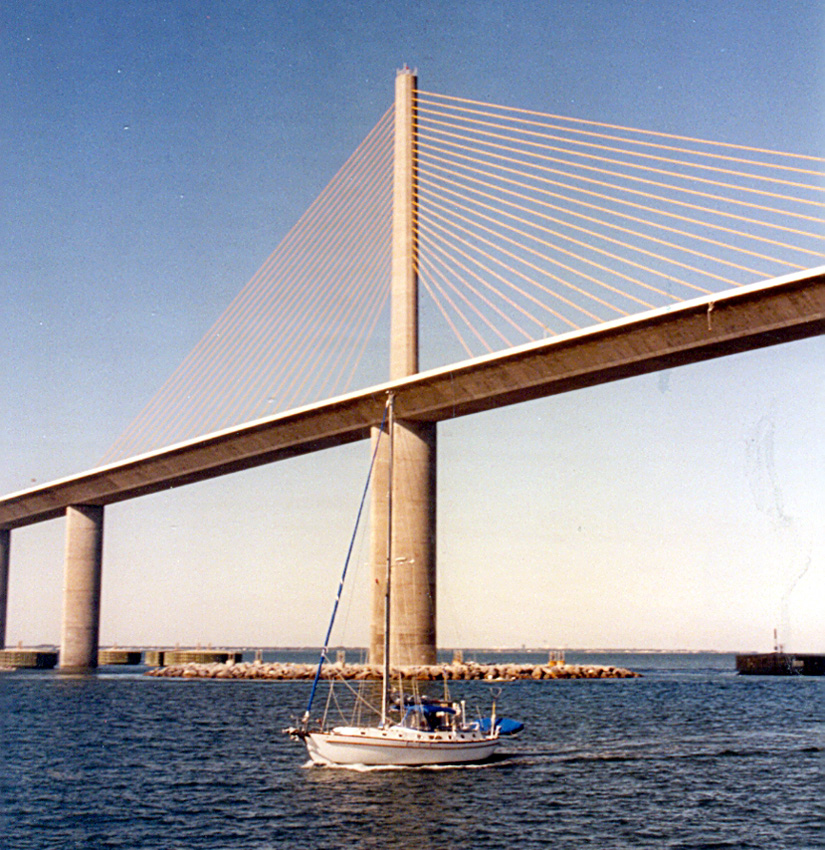 Original description:One of the supports of the main span of the Sunshine Skyway Bridge. The cable-stayed bridge carries four lanes of vehicle traffic over the entrance to Tampa Bay in Florida. The bridge was completed in 1987. It replaced an earlier bridge, which had been partly destroyed when a ship ran into it in a storm in 1980. The main span is 1,200 ft (368 m) long, and has clearance of 193 ft (59 m) over the water. This photo was taken from an excursion boat approaching the bridge from the Gulf of Mexico. St. Petersburg is in the background. The caissons around the bridge supports are to prevent an out-of-control ship from destroying the span.